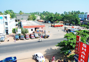 Karunagappaly-bus-stand